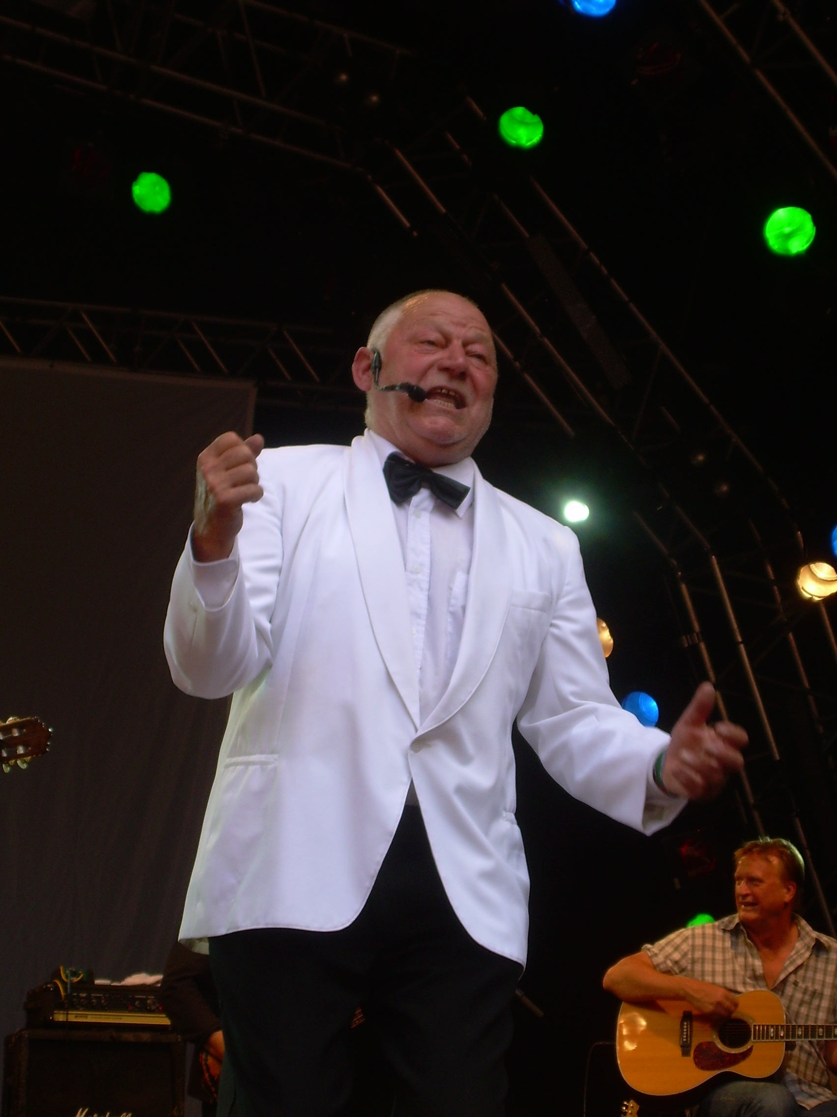 Photo of danish musician Troels Trier taken at Skanderborg Festival 2007, Denmark